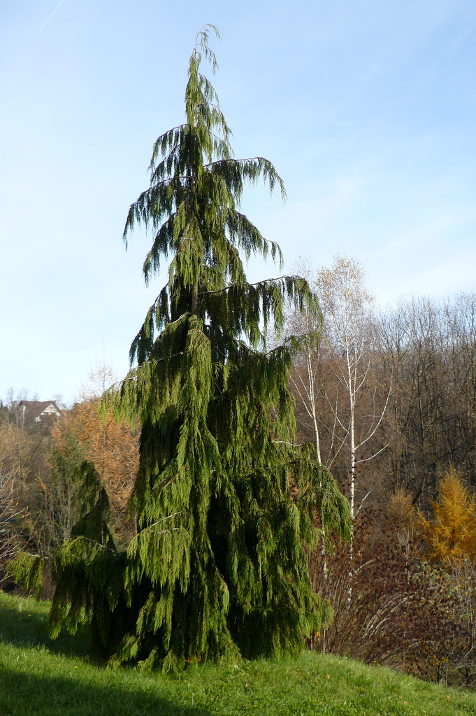 Cupressus nootkatensis (syn. Callitropsis nootkatensis)